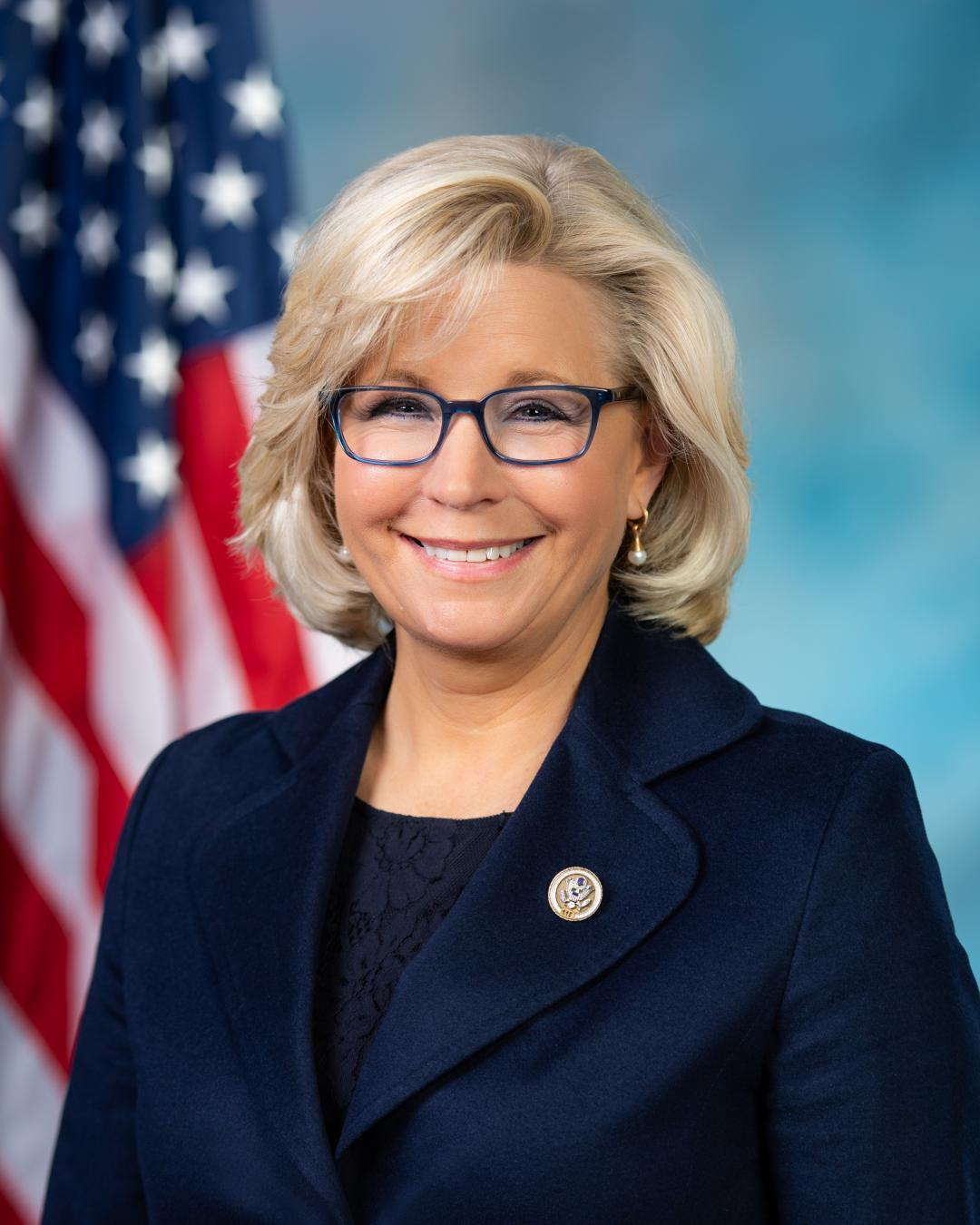 Liz Cheney 116th Congress official portrait